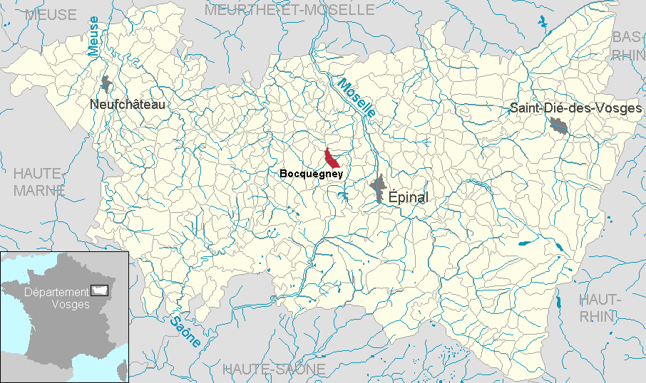 Bocquegney in the department of Vosges, Lorraine, France